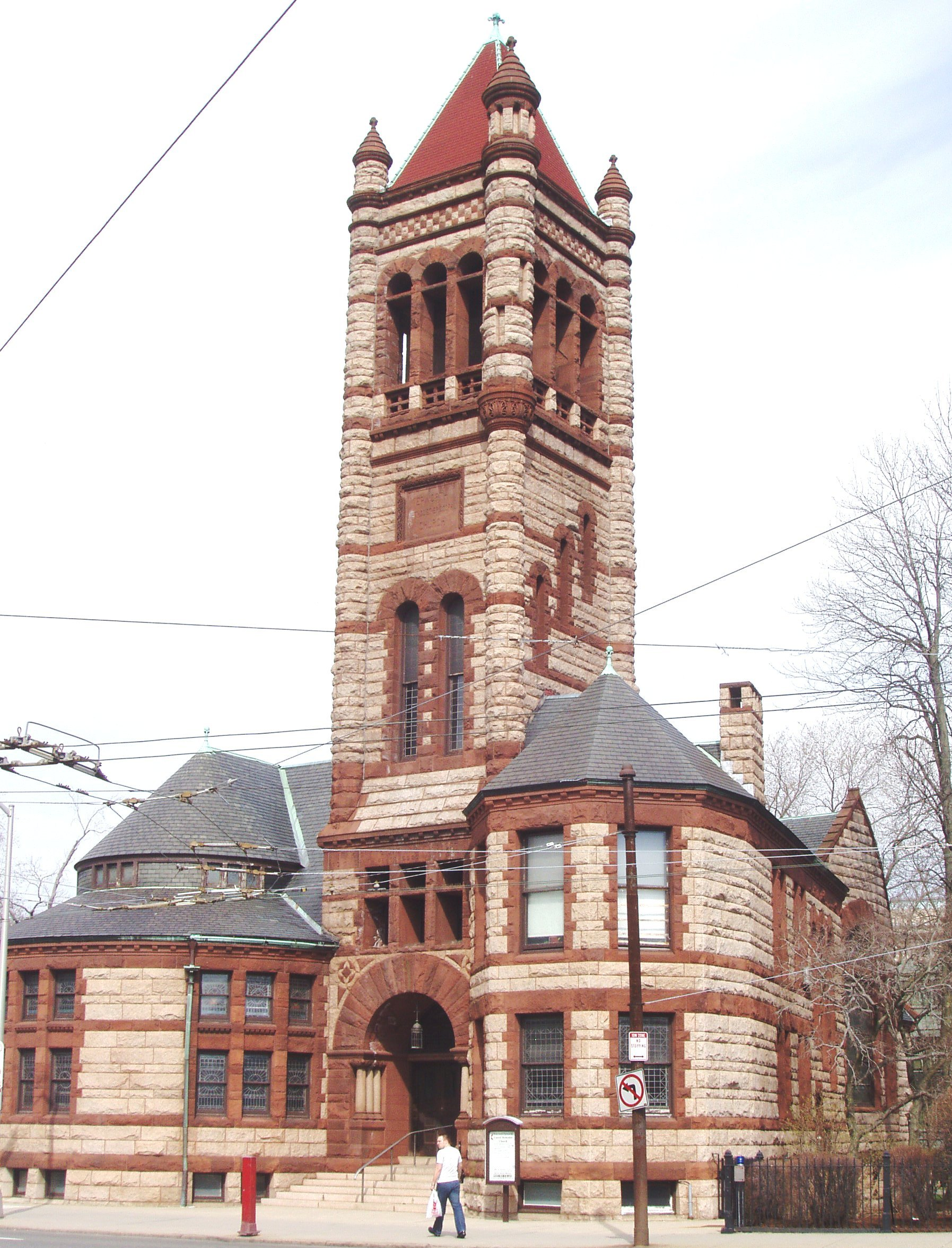 Photograph of the Harvard-Epworth United Methodist Church, Cambridge, Massachusetts, USA. Architect A. P. Cutting of Worcester, Massachusetts. The cornerstone was laid on October 3, 1891.